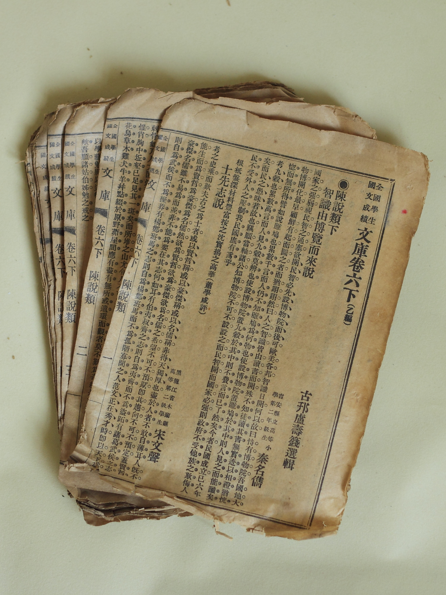 Students‘ essays of early Republic of China (about 1918).